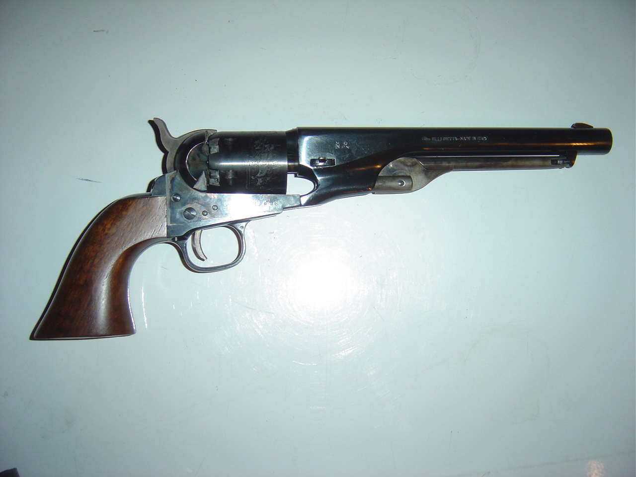 Reproduction of a Colt Model 1860 Navy Revolver.